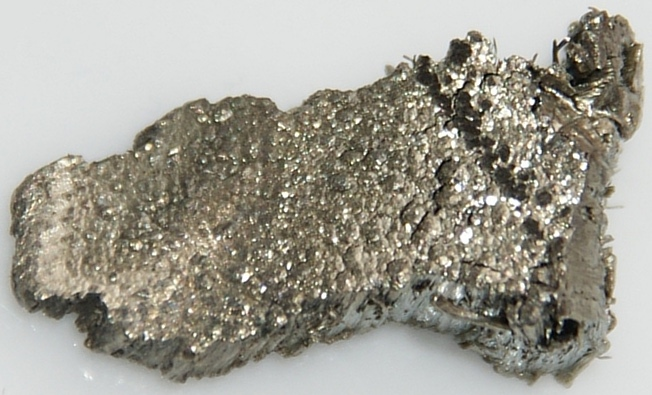 Scandium metal